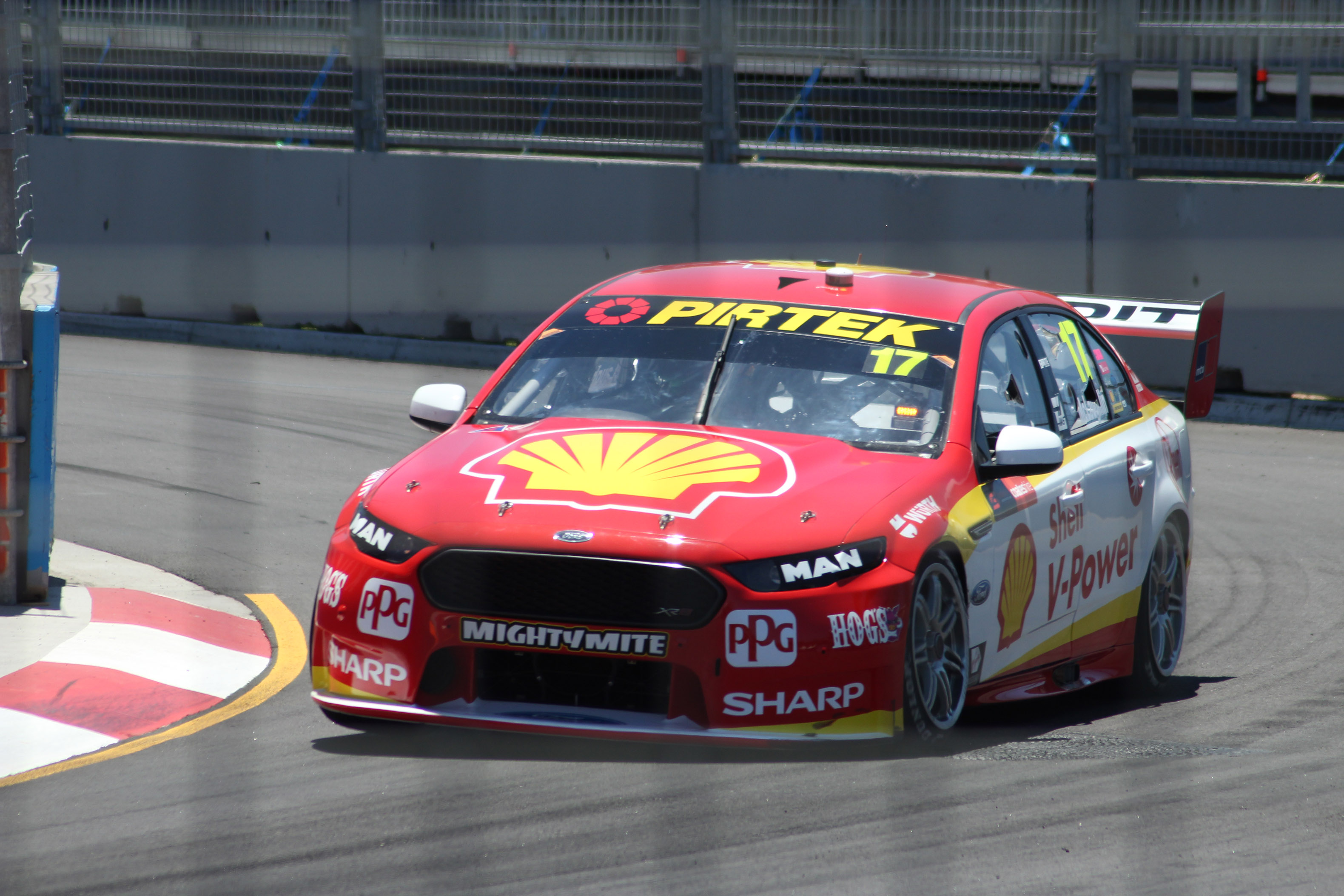 Scott McLaughlin got pole for both races and won the inaugural race.